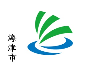 Flag of Kaizu Gifu